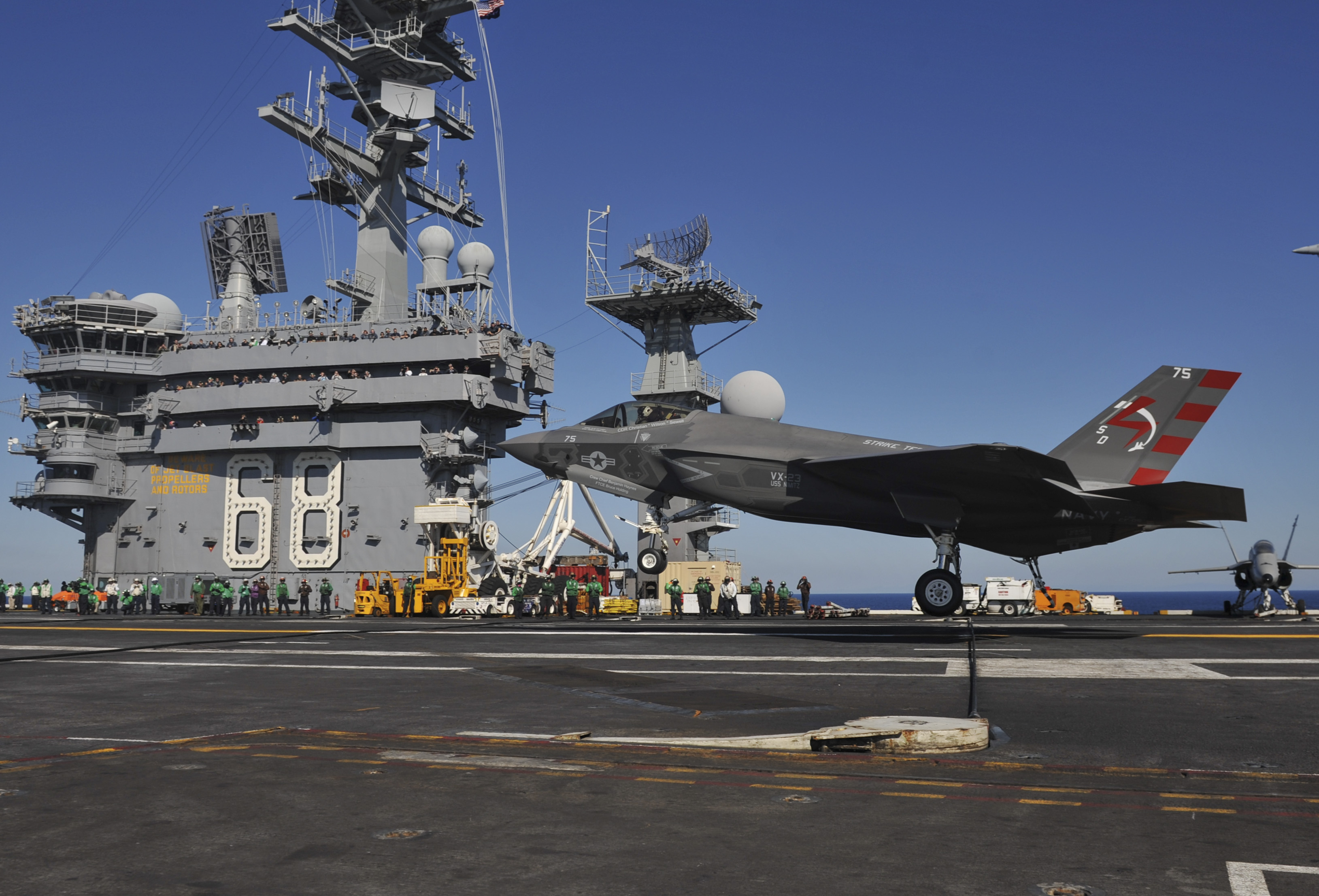 A U.S. Navy Lockheed Martin F-35C Lightning II of Air Test and Evaluation Squadron 23 (VX-23) conducts it's first arrested landing aboard the aircraft carrier USS Nimitz (CVN-68) in the Pacific Ocean. The F-35C was conducting initial at-sea developmental testing expected to last two weeks.